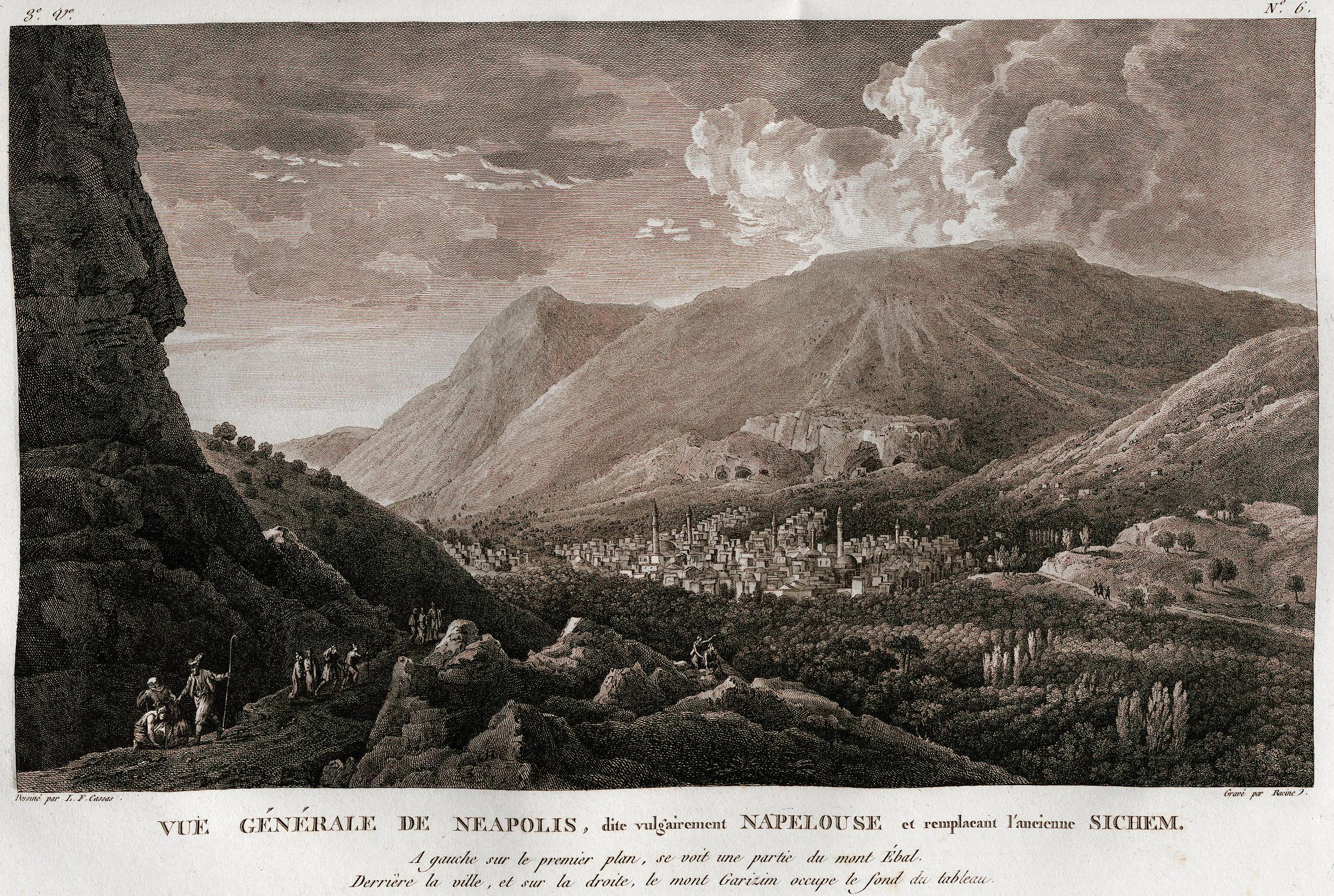 Louis-François Cassas From: Voyage pittoresque de la Syrie, de la Phoenicie, de la Palaestine et de la Basse Aegypte: ouvrage divisé en trois volumes contenant environ trois cent trente planches